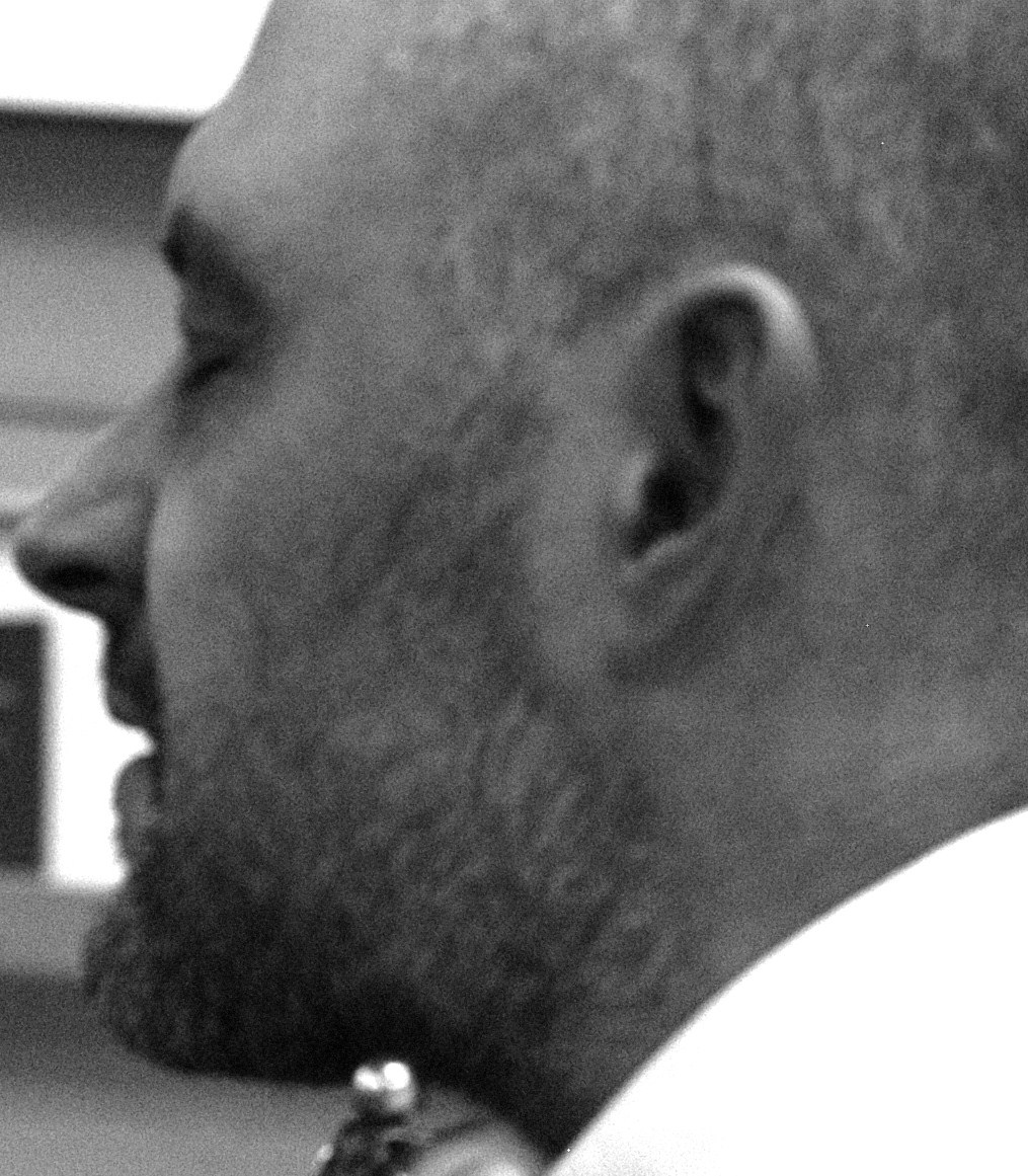 Jozef Kapustka, pianist.